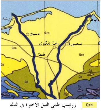 Geology map of Delta